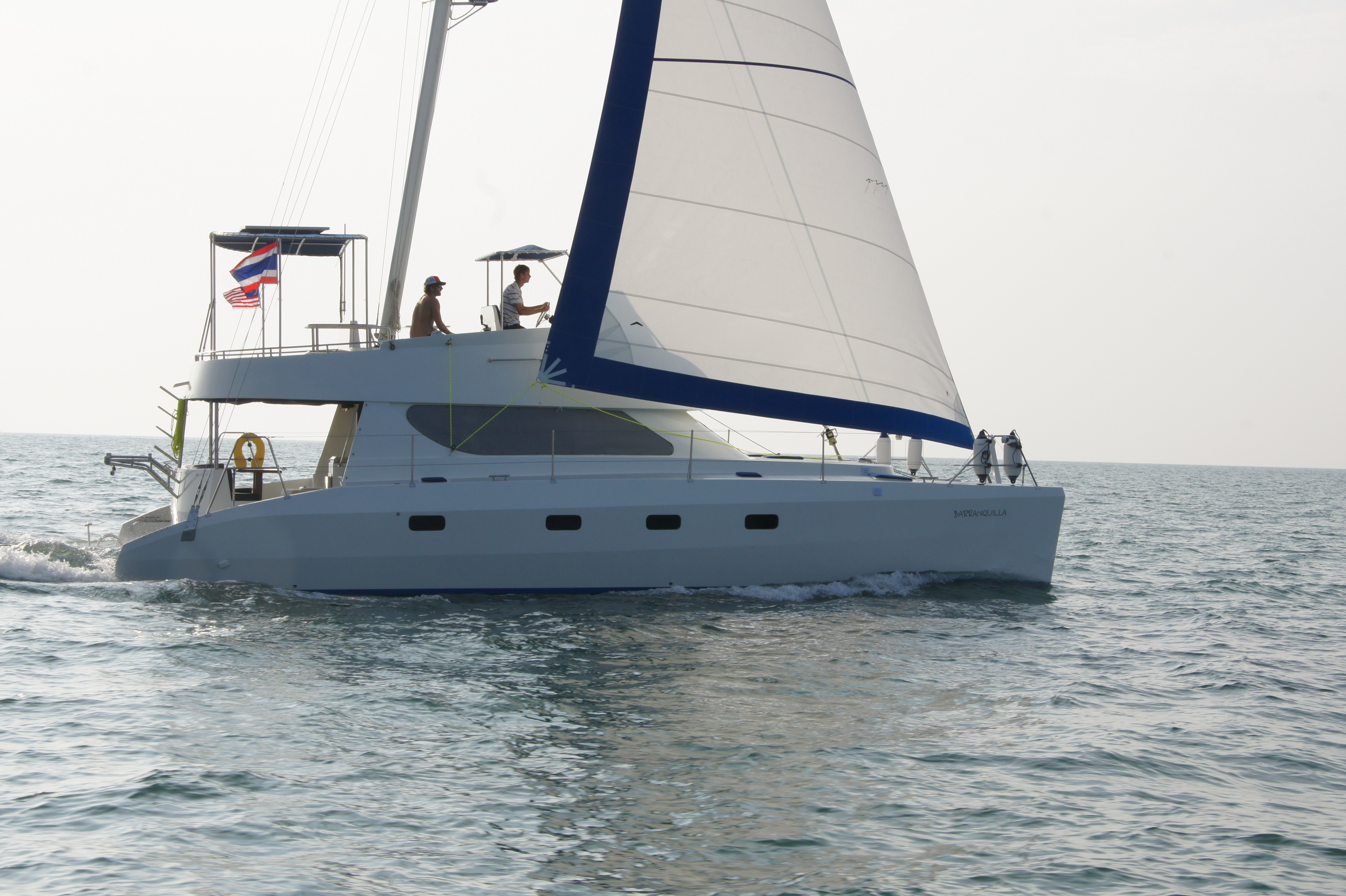 RB Power and Sail HK-40 Catamaran